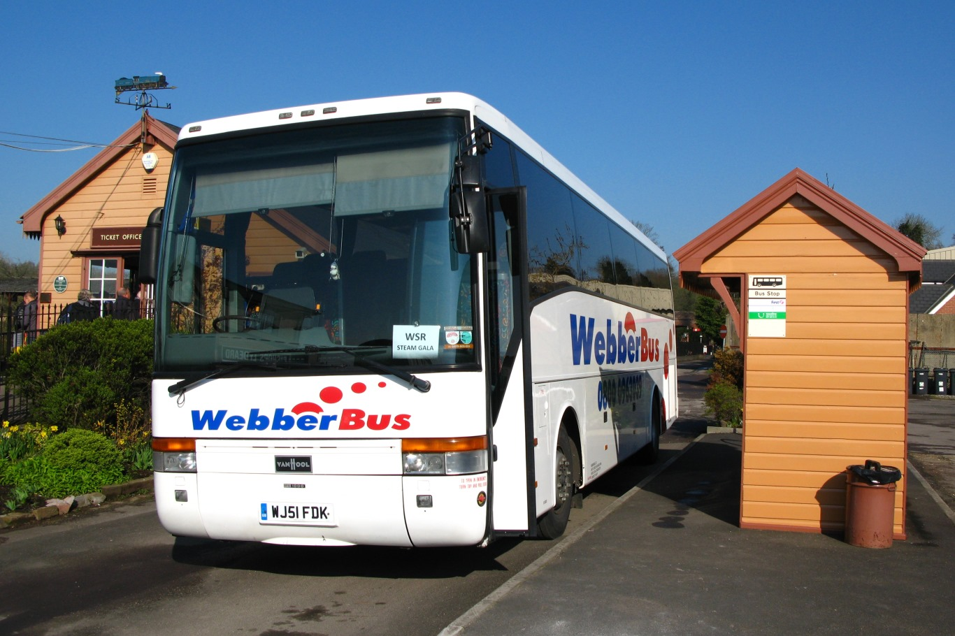 Webberbus's WJ51FDK is the shuttle bus to carry passengers between Taunton and Bishops Lydeard railway stations for a gala event on the West Somerset Railway. It is seen at the latter.